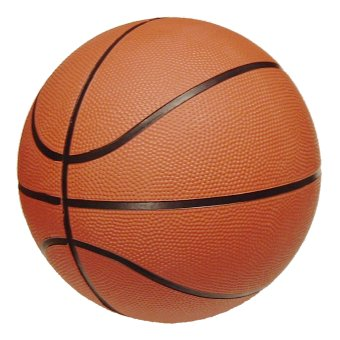 A typical cheap basketball with a rubber-type outer surface.